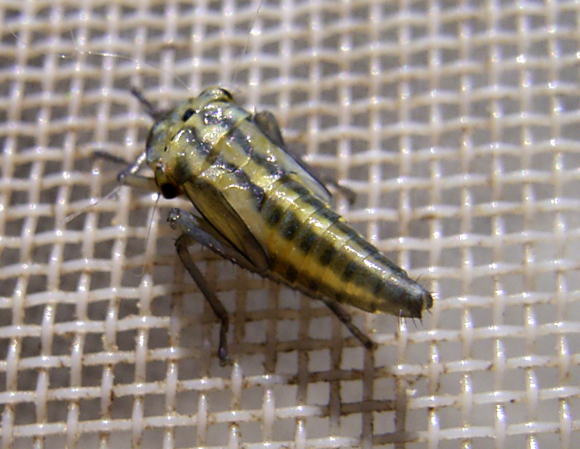 Nymph of Cicadella viridis